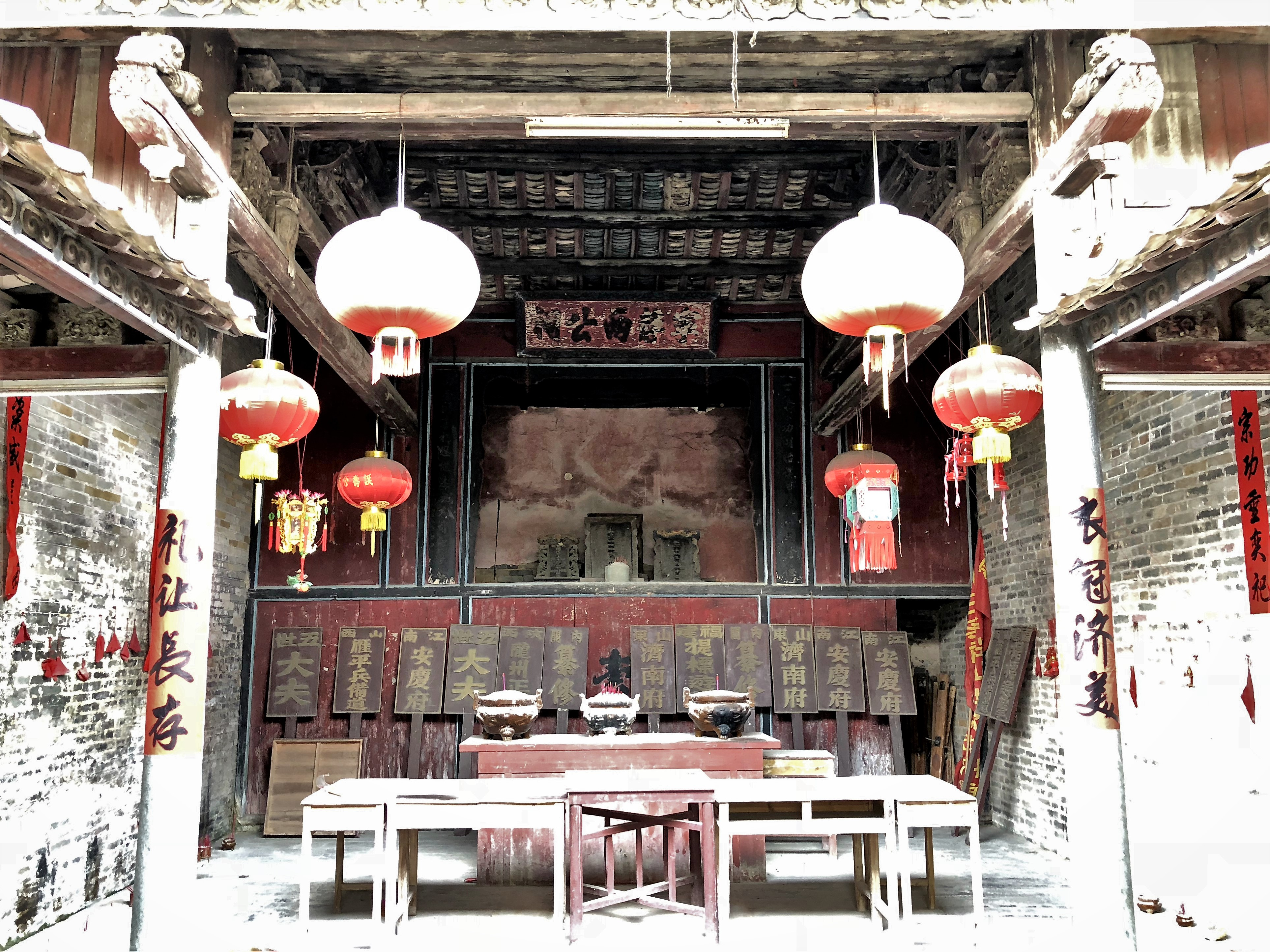 Ancestral Temple, Tiankeng. Interior.